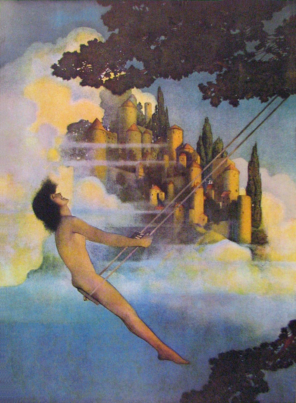 The Dinky Bird, 1904 by Maxfield Parrish (1870-1966)